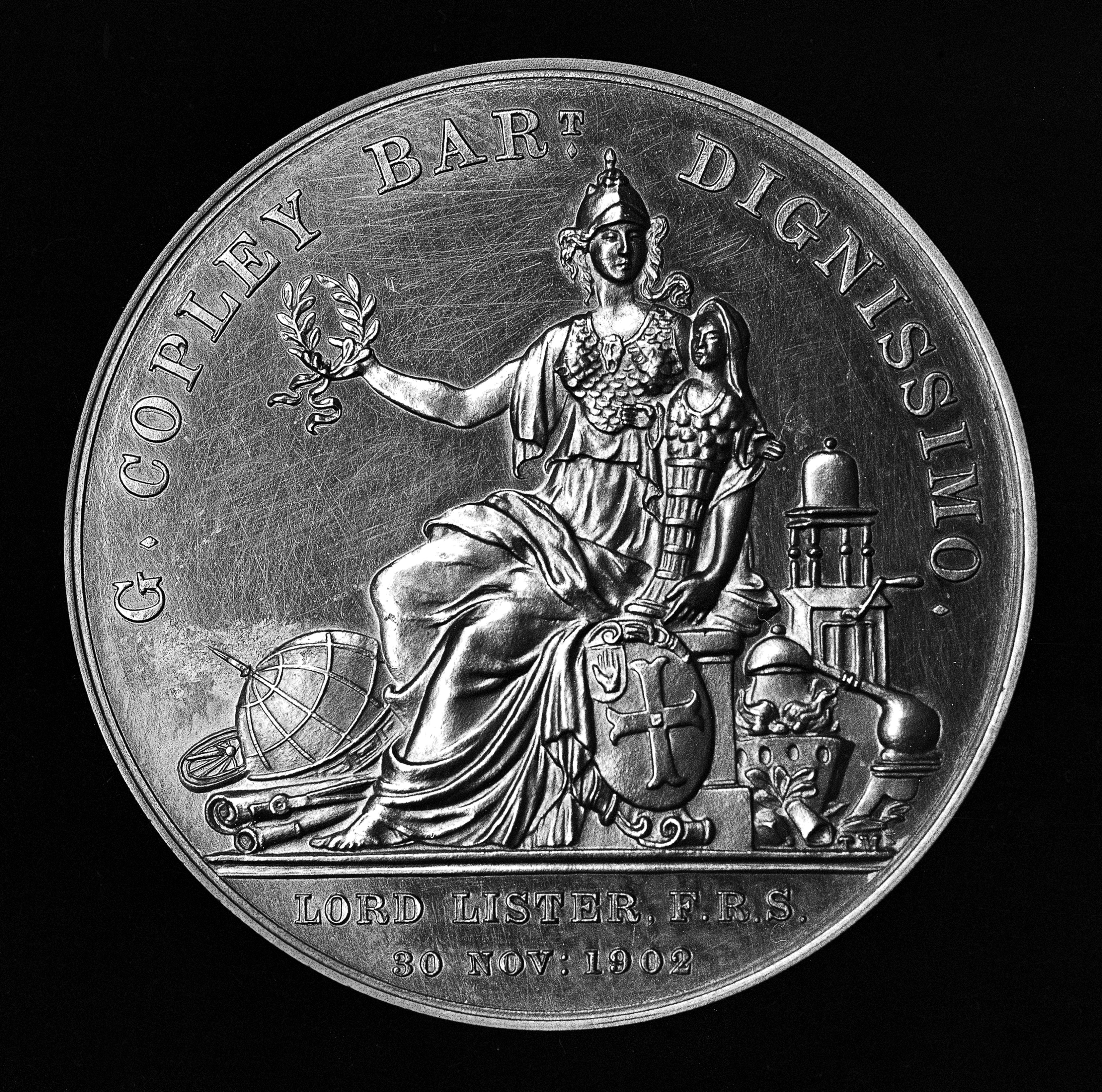 Joseph Lister, Copley Medal (gold), 1902 Wellcome Images Keywords: Joseph Lister